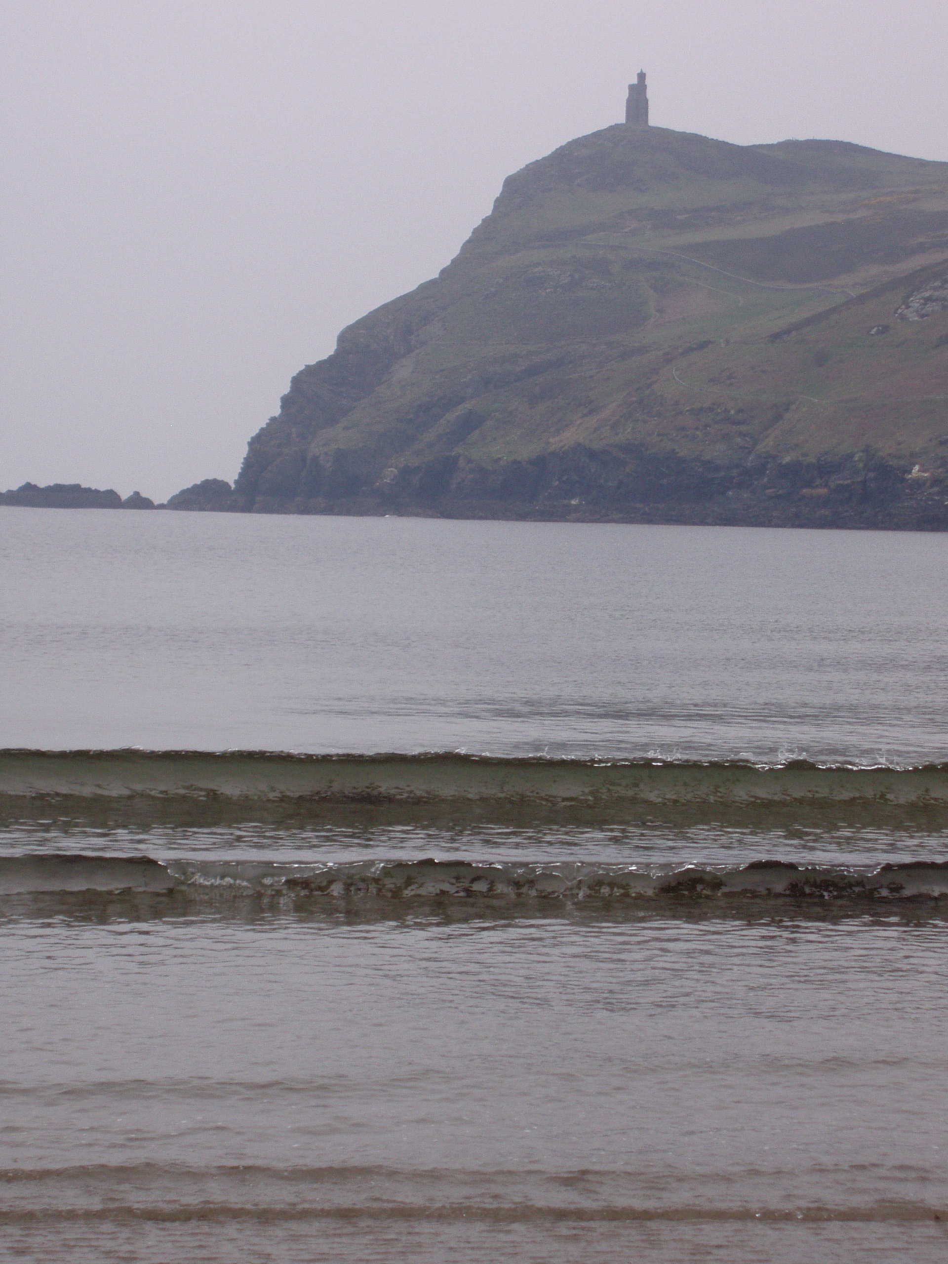 As the Irish Sea surf flows into Port Erin Bay, Milners Tower can be seen standing prominently atop Bradda Head.